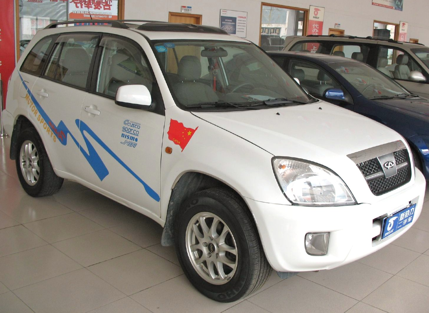 Chery Tiggo